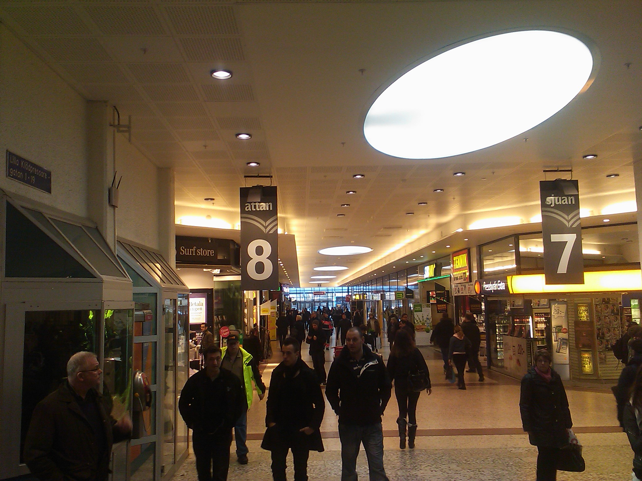 Lilla Klädpressaregatan, Göteborg, Sweden